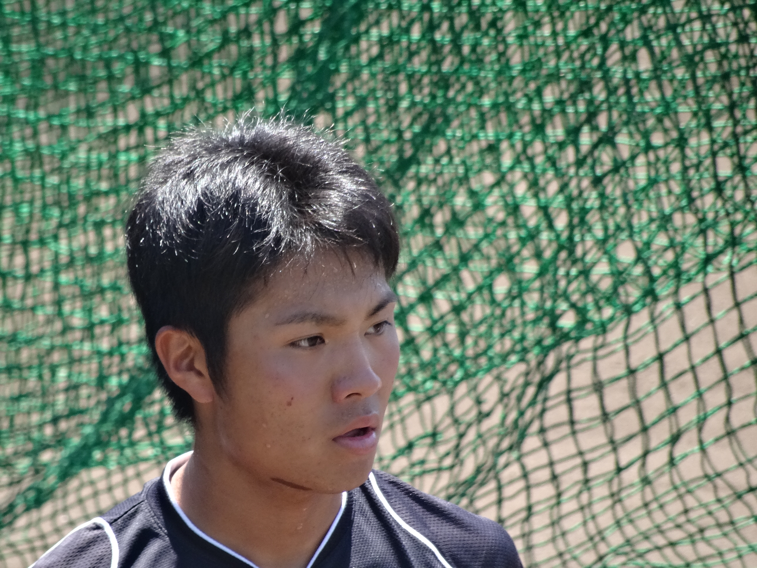 Hayato Mizowaki, infielder of the Chunichi Dragons, at Hanshin Naruohama Baseball Ground